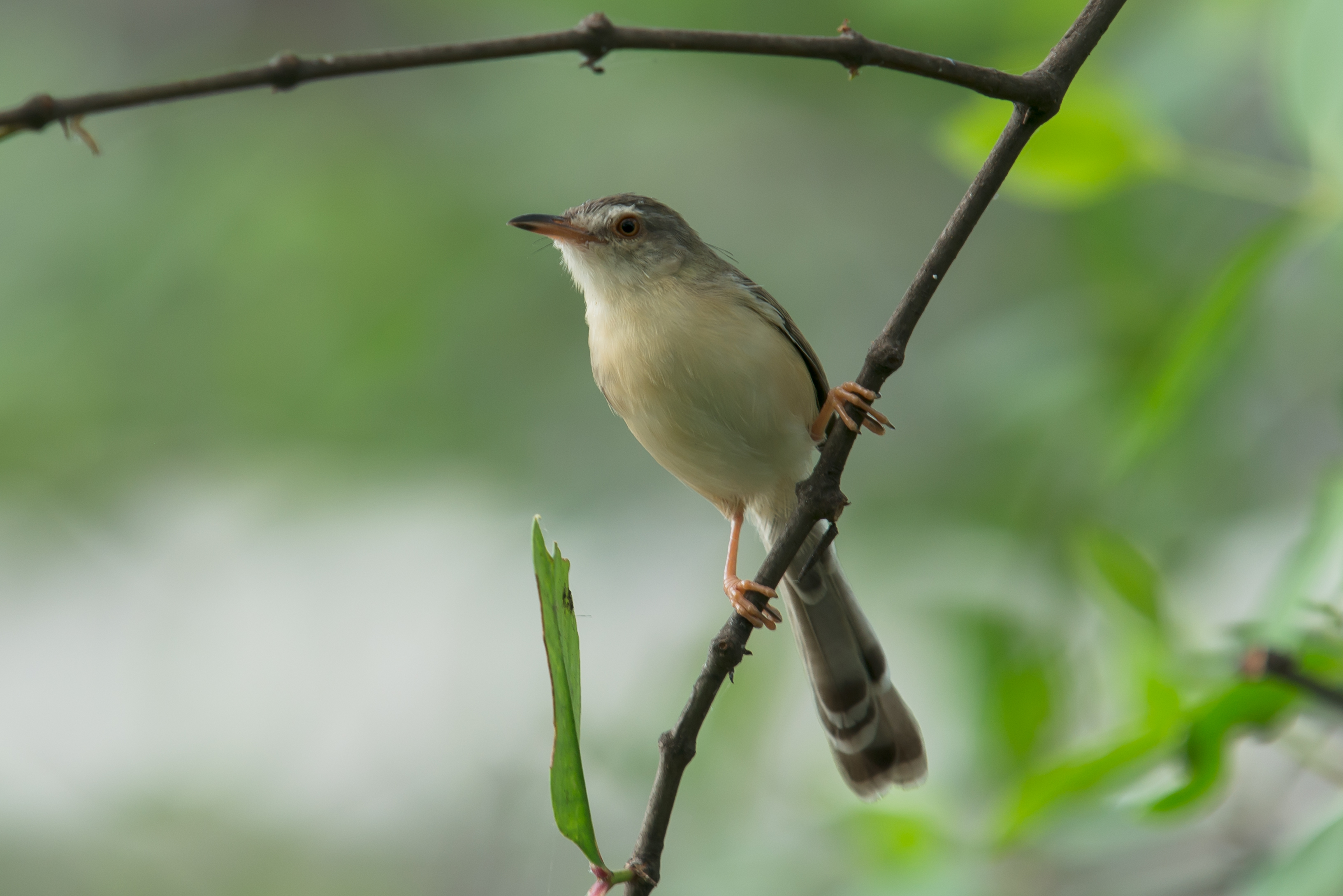 This photo is published under Creative Commons Attribution-Share-Alike Licence, means you are free to use this photo with attribution under same licence. For credits, please use following; Owner: Thai National Parks Link